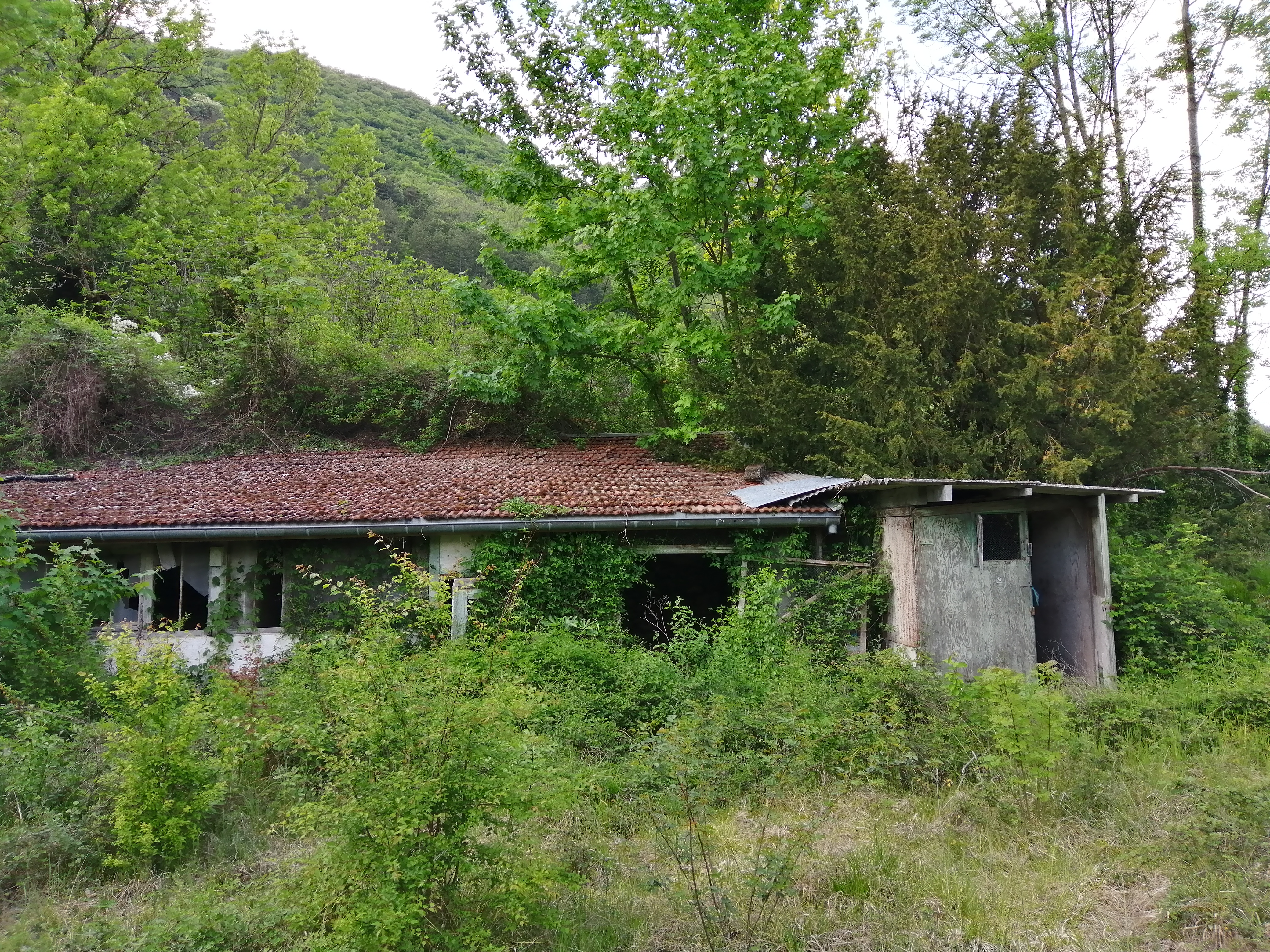 Hen house of the Convent of Visitation Sainte-Marie in Vif, France (spring 2020).